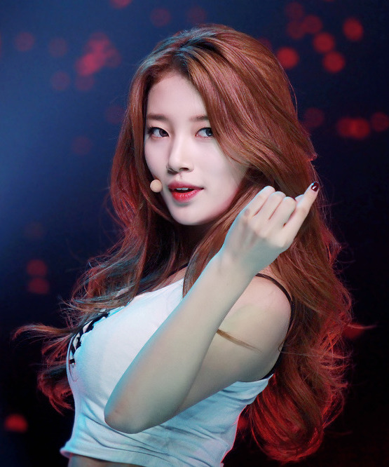 Suzy on 16 December 2013